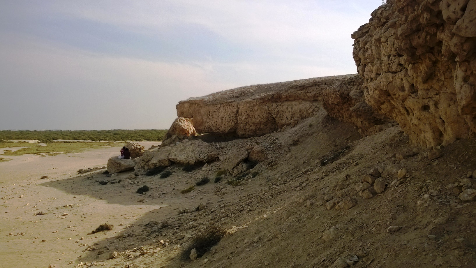 Al khore Mangrove forest (Purpule Island)